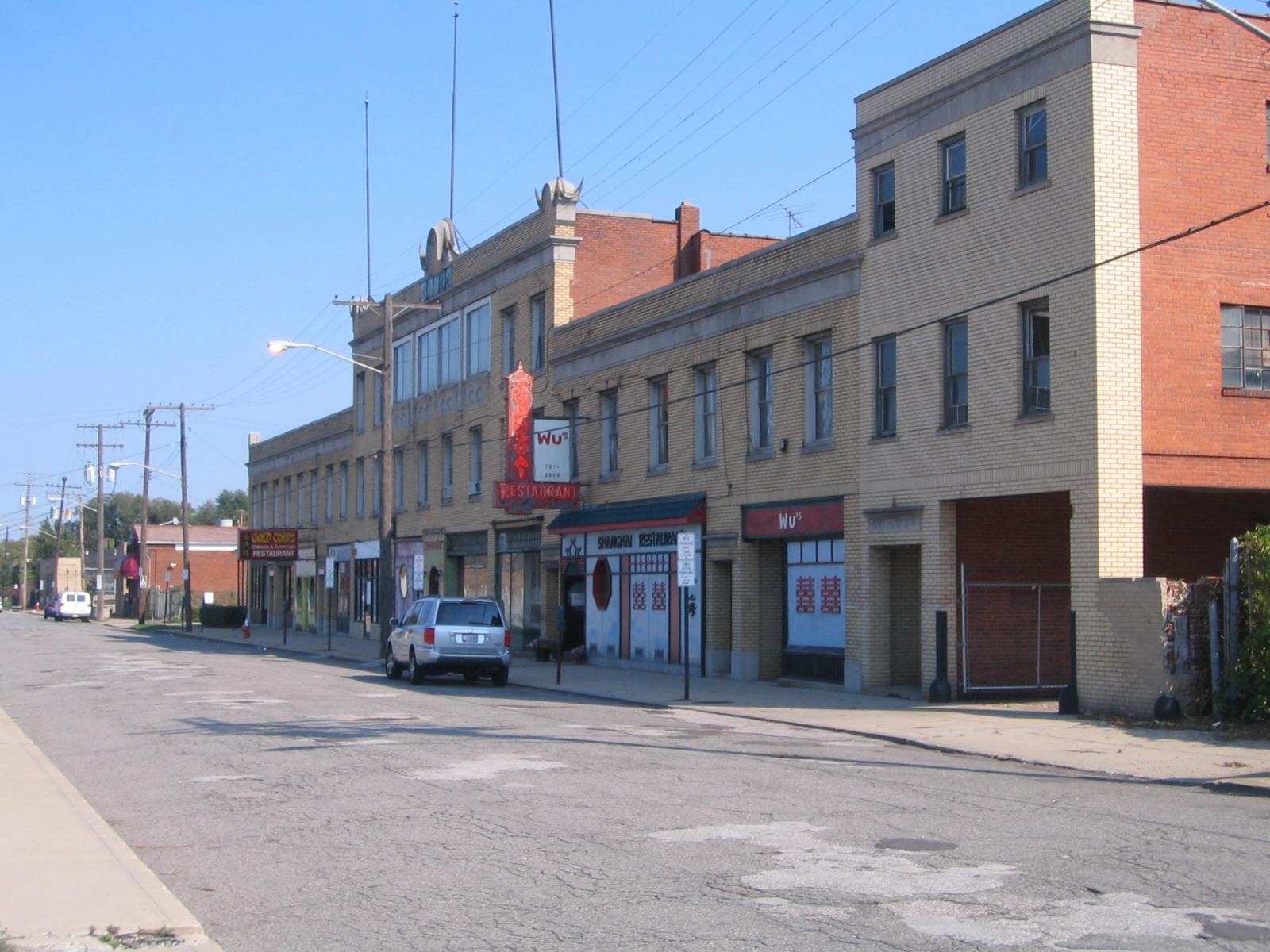 2100 block of Rockwell Avenue in Cleveland, Ohio, in the United States. This block is the heart of Cleveland's Historic Chinatown, an enclave in the Downtown neighborhood.